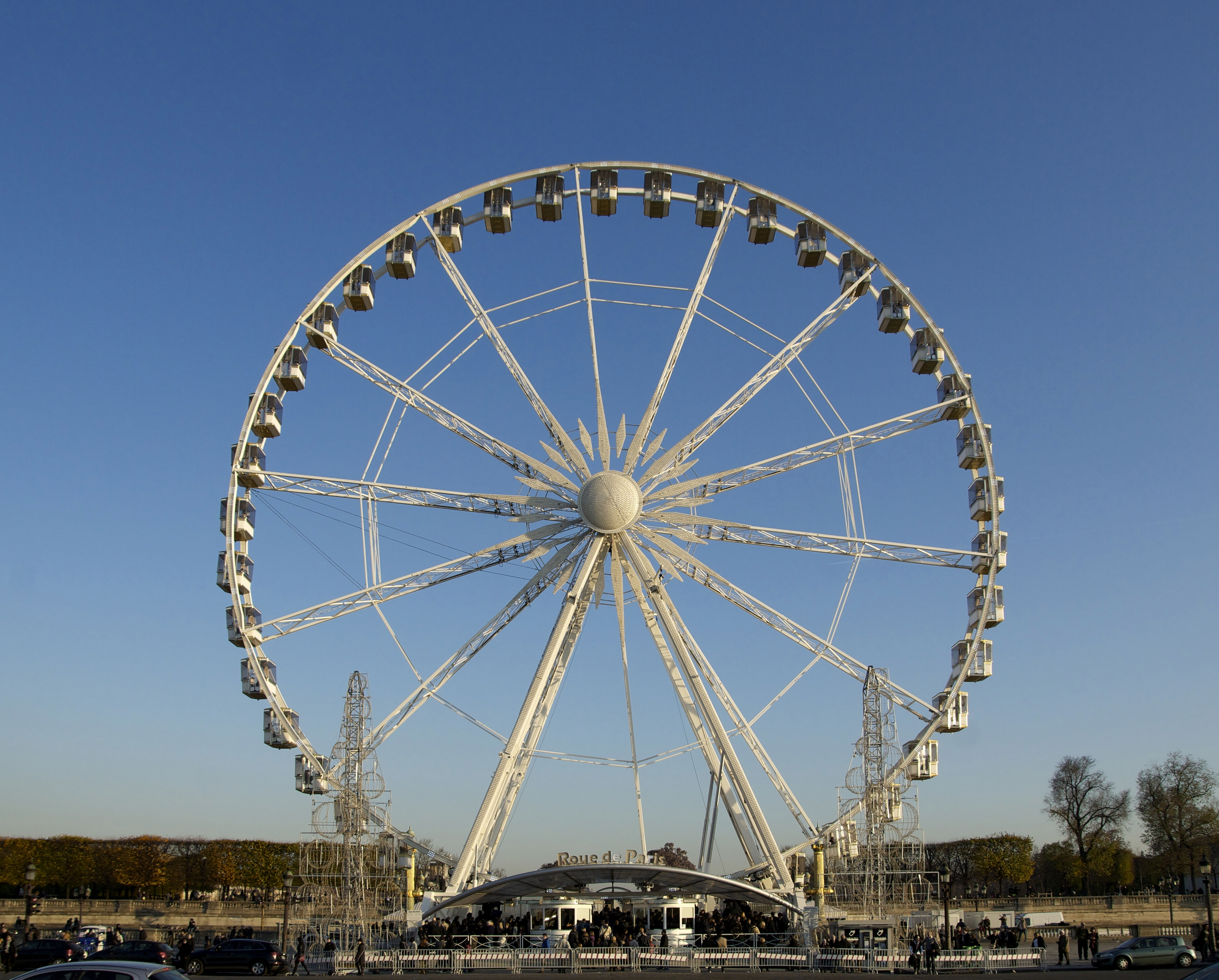 Ferris wheel, Concorde square, Paris.